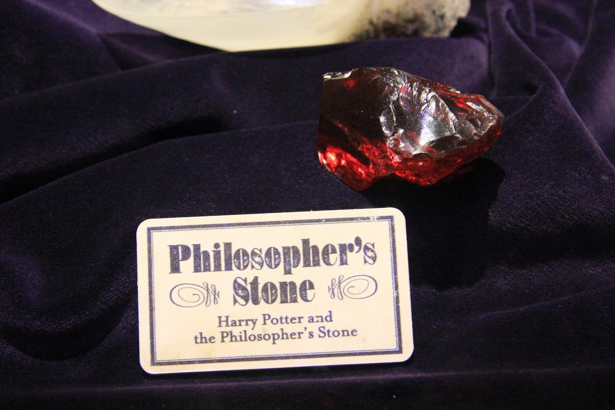 Warner Bros. Studio Tour London: The Making of Harry Potter.